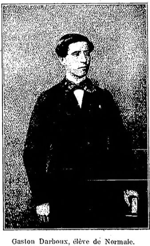 Darboux as a student of the Ecole Normale. As printed in the magazine "L'enfant". (See ref 3.)